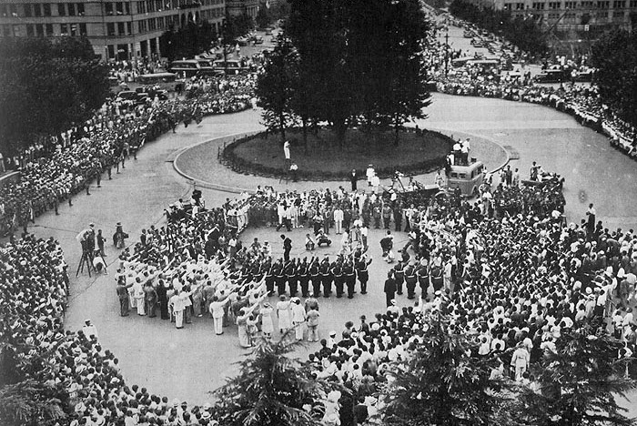 Japanese crowds welcoming Hitlerjugend in front of Tōkyō Station